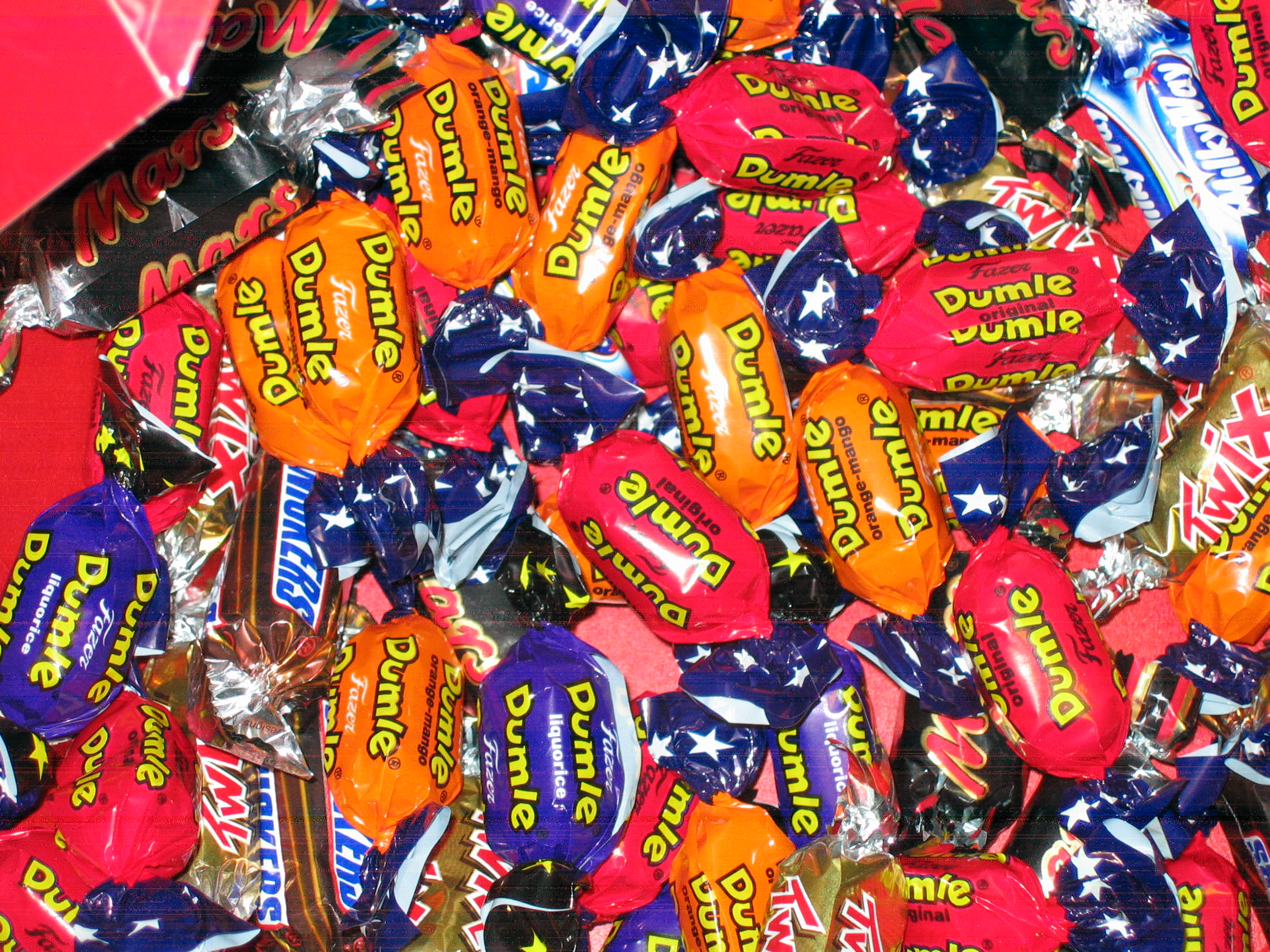 A pile of candies, mainly "Dumle".